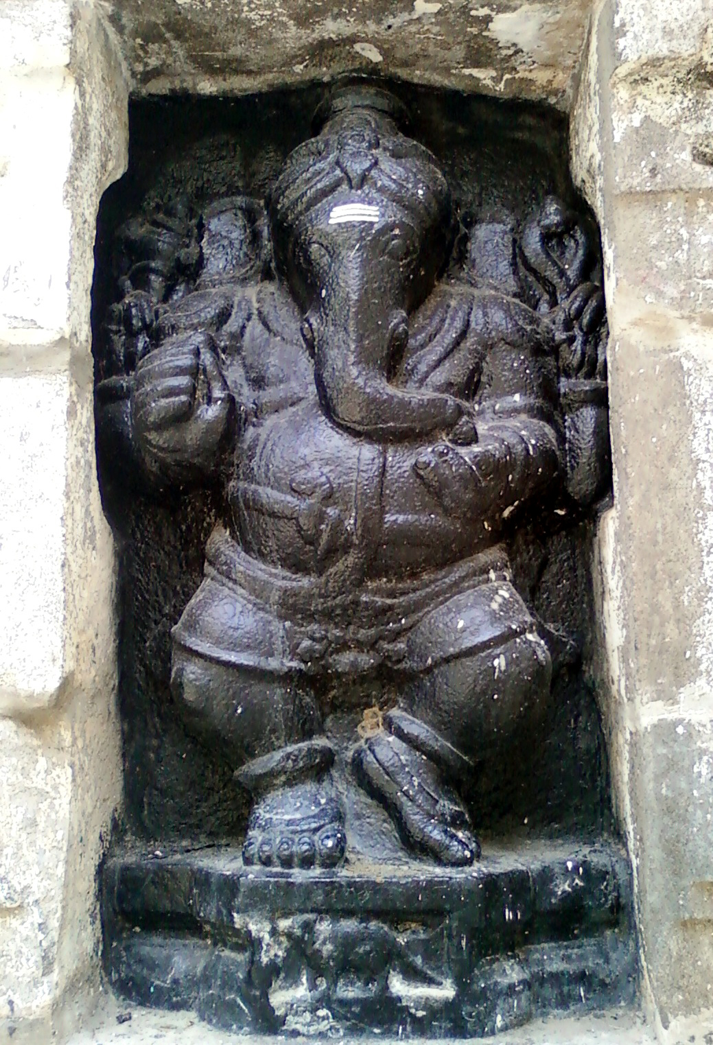 A Ganesha stone carved relief on Andhra Maha Vishnu Temple walls in Srikakulam of Krishna District